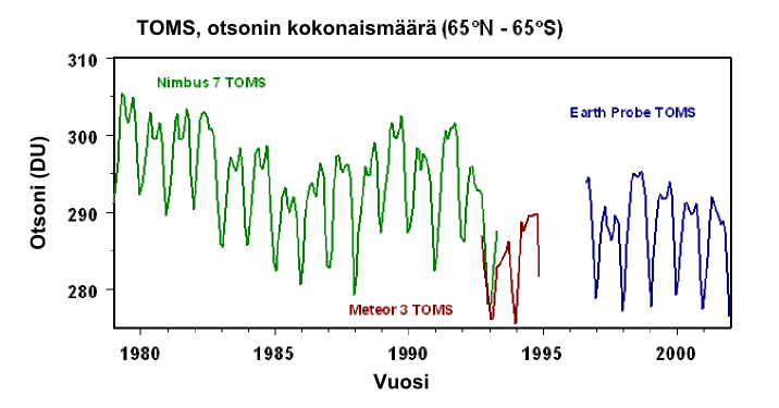 Global Ozone accoring to TOMS measurements with Finnish titles, see Image:TOMS Global Ozone 65N-65S.png "This image shows the global (from 65 degrees north latitude to 65 degrees south latitude) monthly average total ozone amount for the time period 1979 through the end of 2001. The green line shows the results from Nimbus-7 TOMS instrument. The red line shows the results from the Meteor-3 TOMS instrument. The blue line shows the results from the Earth Probe TOMS instrument, which developed a fault in 2002."